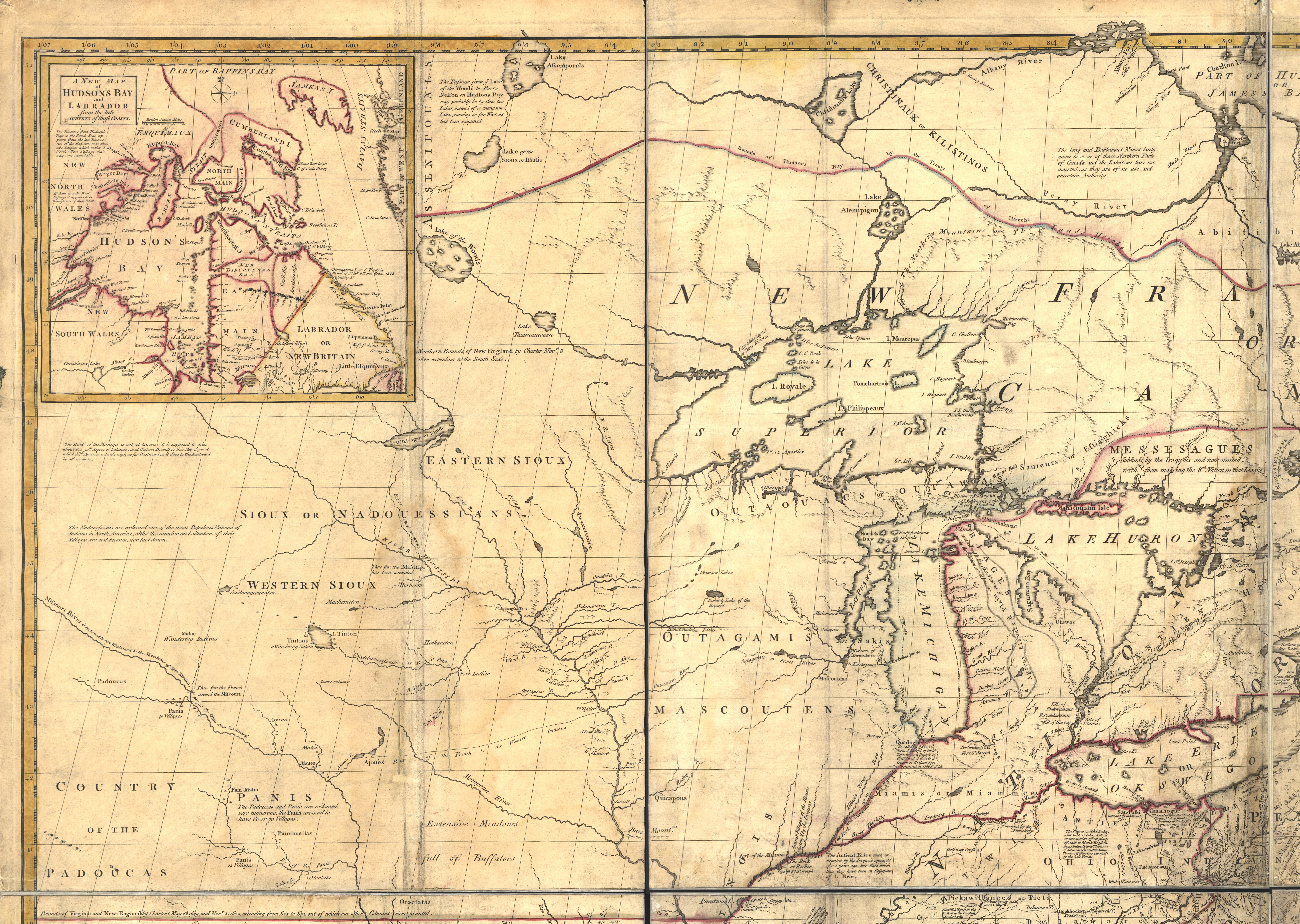 North west quarter of Mitchell Map - A map of the British and French dominions in North America,...; 1757